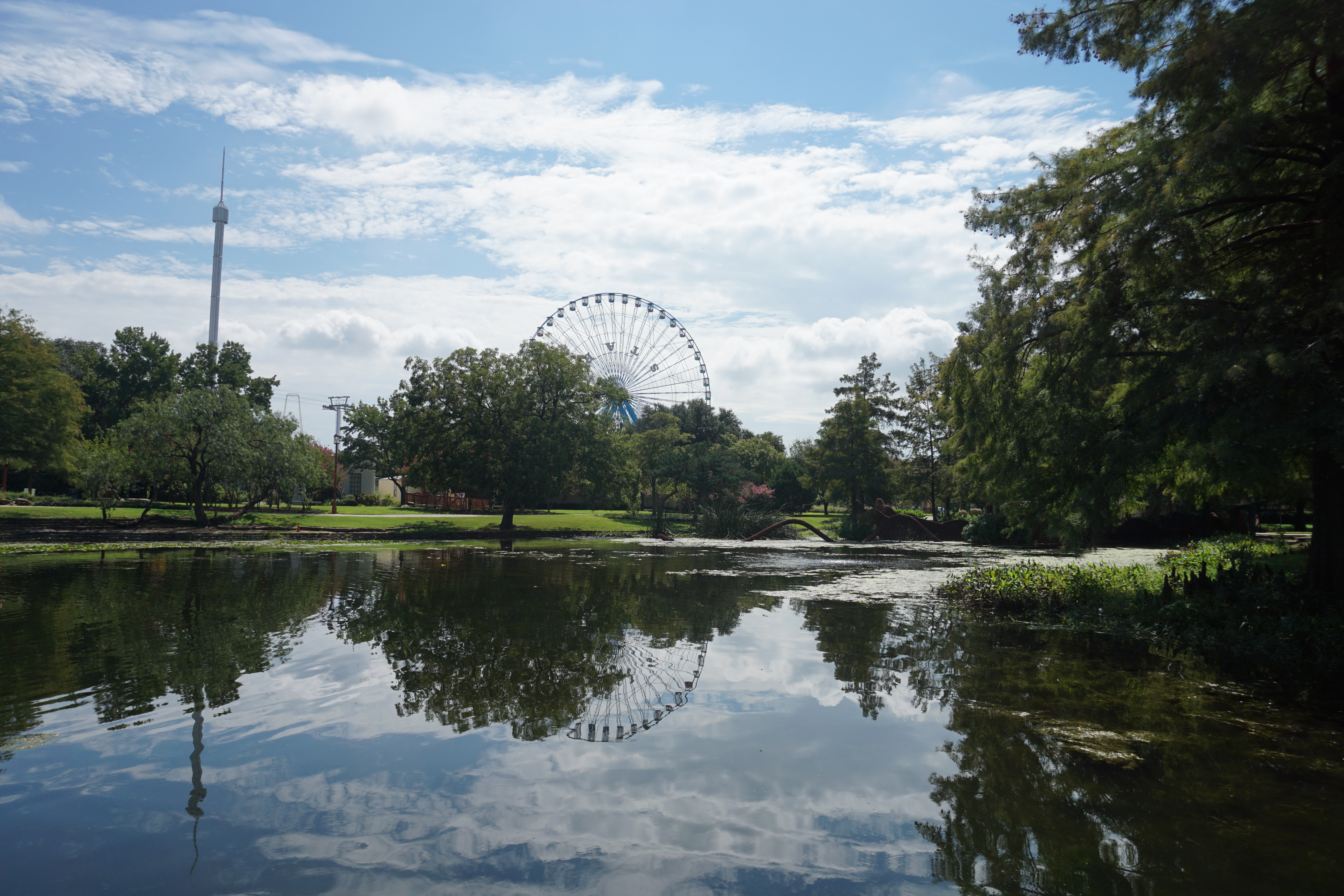 Leonhardt Lagoon at Fair Park in Dallas, Texas (United States).